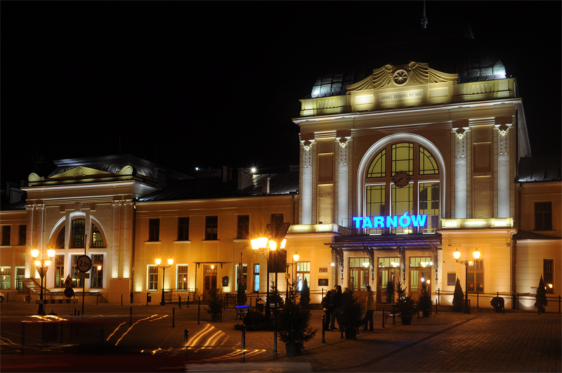 Tarnów Railway Station